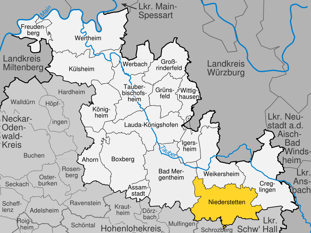 position of Niederstetten within the Main-Tauber-Kreis, Baden-Württemberg, Germany